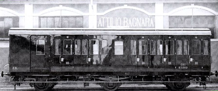 FS CDiy 67000 Officine Bagnara